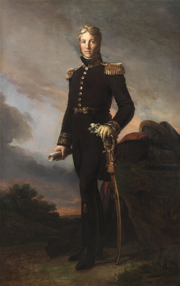 French general Jean Victor Moreau